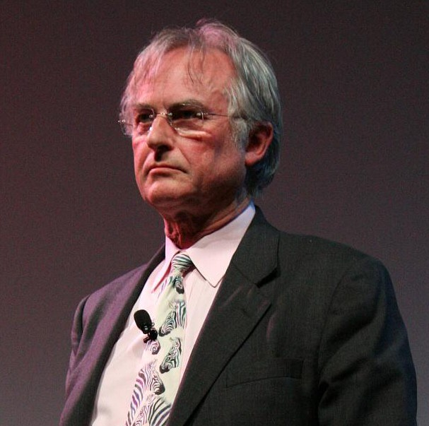 Bust-length cropped portrait photograph of Richard Dawkins in 2008